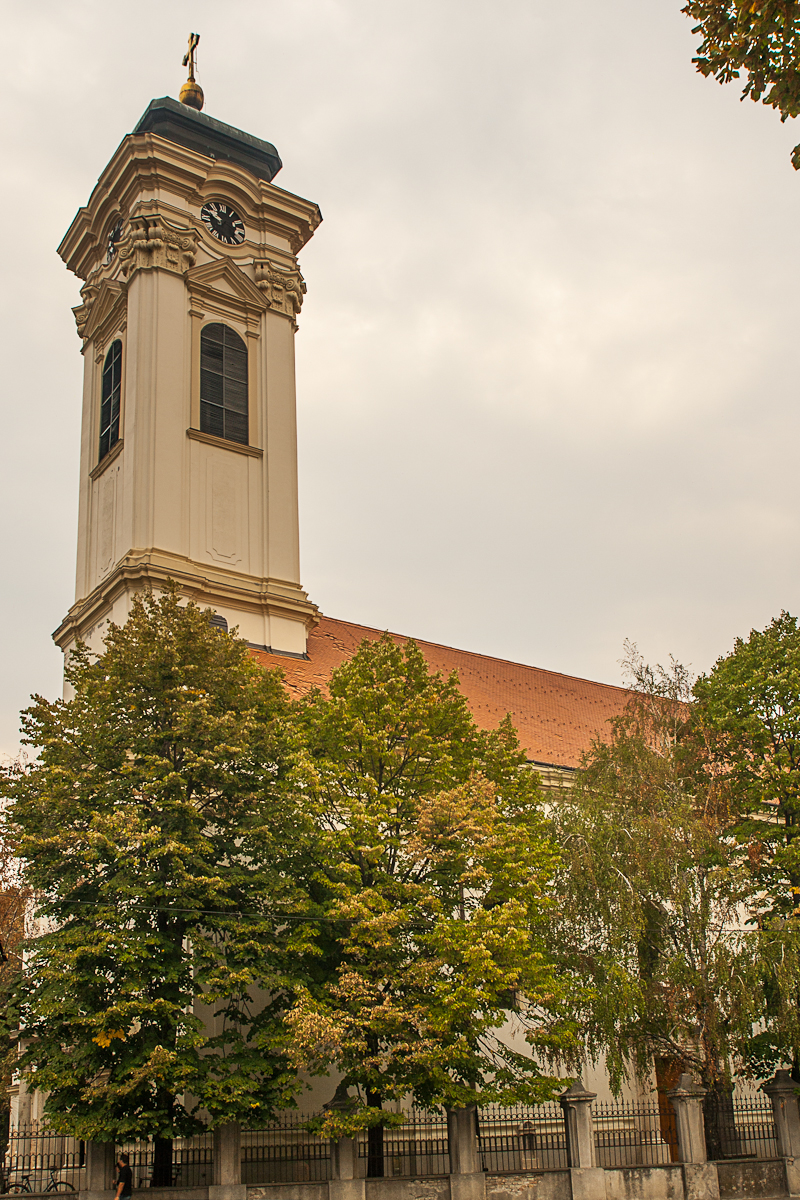 Almaš church in Novi Sad, Serbia. It was built in 1797.